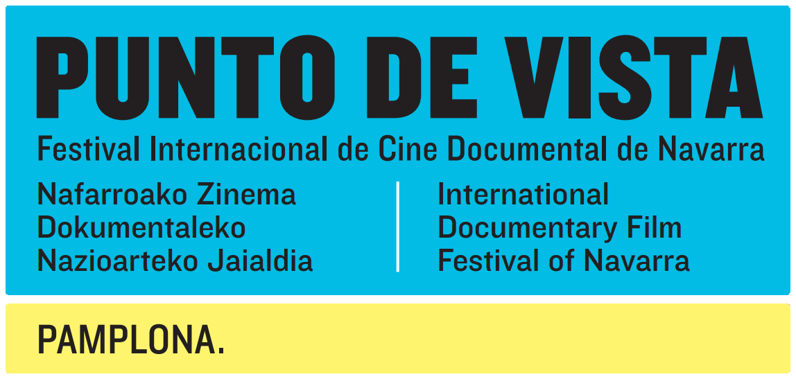 Archetypal poster used in editions of Festival Punto de Vista. Empty yellow stripe is where dates are include in the corresponding edition.